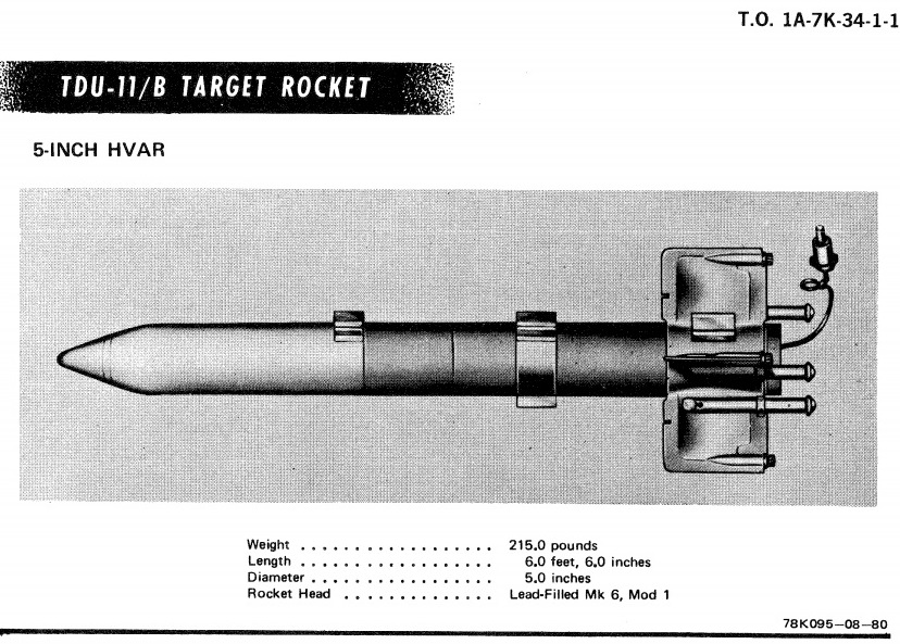 Image of TDU-11B target rocket from 1981 A-7K Non-nuclear weapons delivery manual